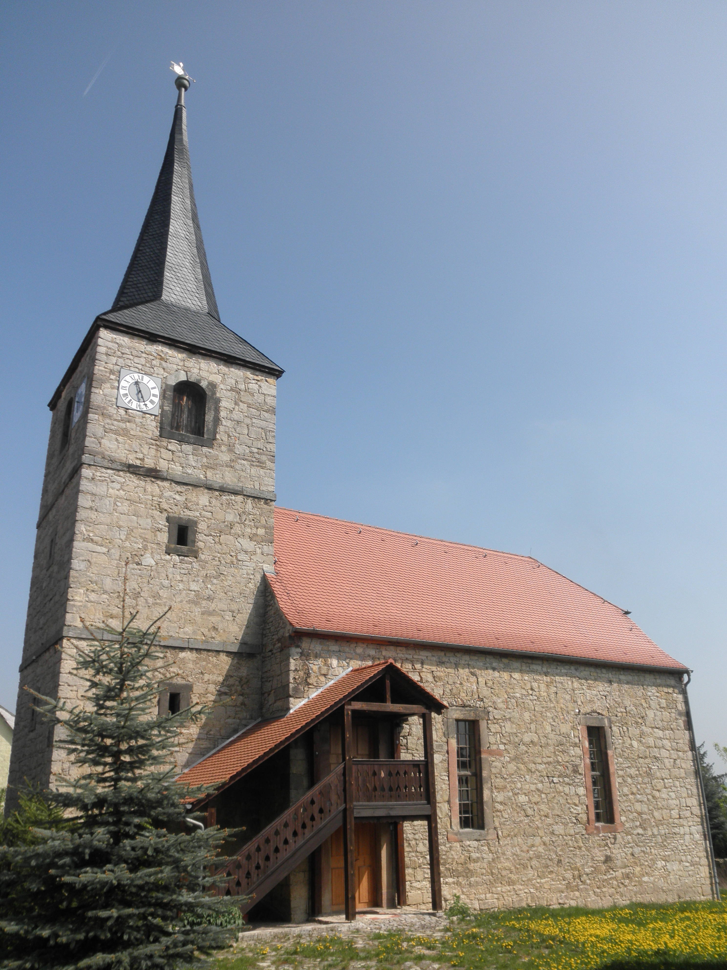 Church in Schellroda in Thuringia